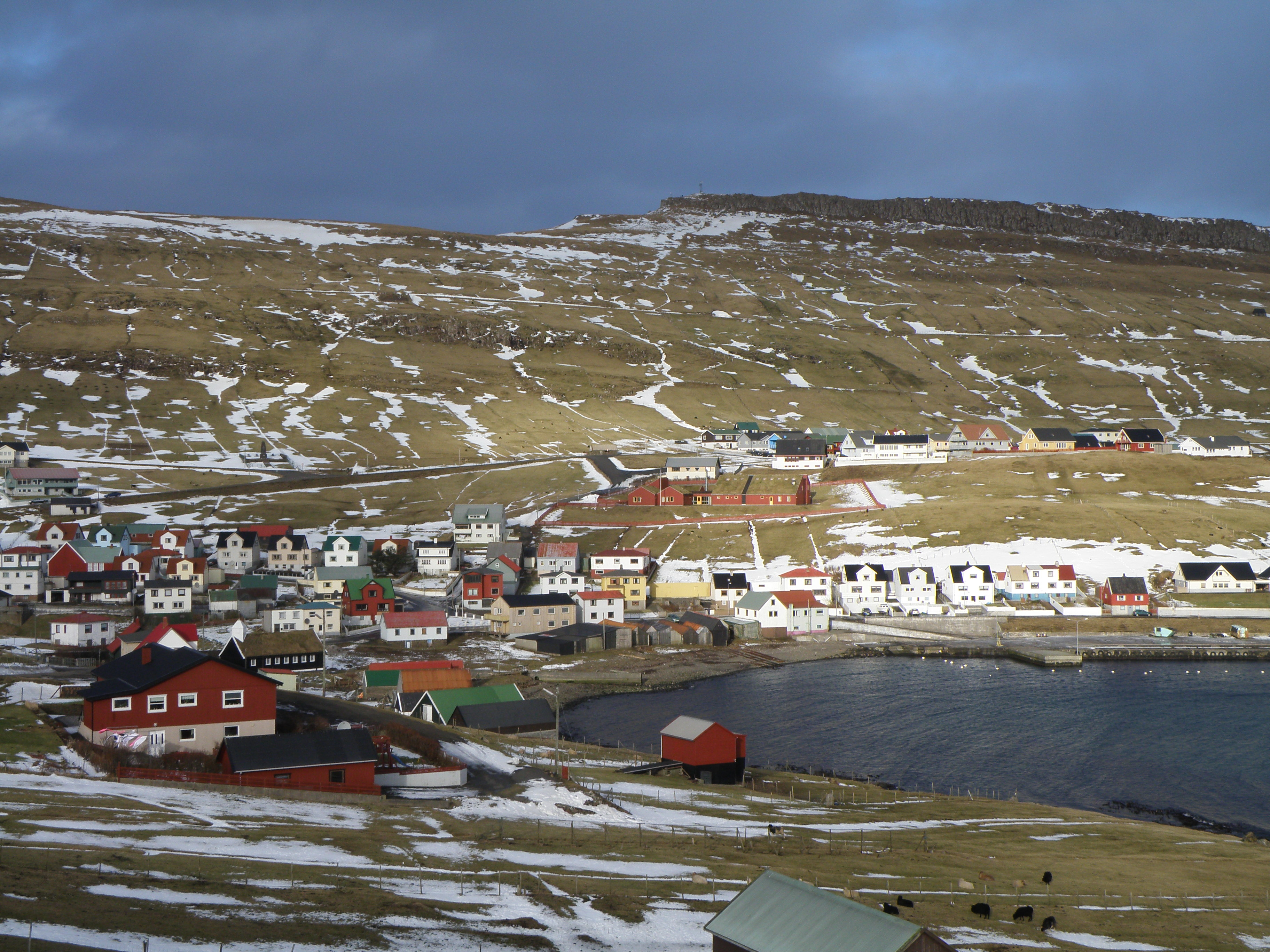 Porkeri is a village in Suðuroy, Faroe Islands. Kambur is a 206 meter high mountain, located on the northern side of Porkeri. Porkeri and Kambur are located on the east coast of Suðuroy. South of Hov and north-east of Vágur. The old church of Porkeri is to the left on this photo, it has turf roof. The church was built in 1847. The school is the red building with turf roof in the center of this photo. Føroyskt: Porkeri er ein bygd í Suðuroy, bygdin liggur sunnanfyri Hov og í ein landnyrðing av Vági, við byrjanina av Vágsfirði. Fjallið á myndini eitur Kambur og er 206 metrar høgt. Skúlin í Porkeri, sum sæst á myndini (reyður bygningur við flagtekju) varð bygdur í 1984.